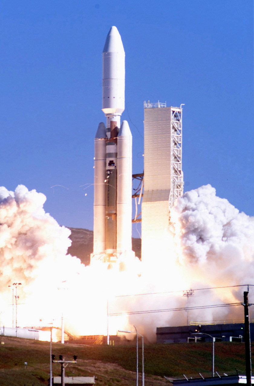 Team Vandenberg launched a Titan IV-B rocket from Space Launch Complex 4 East on August 17, 2000. The rocket carried a National Reconnaissance Office satellite into orbit. "The 30th Space Wing, Space and Missile Center, NRO and Lockheed Martin Aerospace have worked together to build upon our legacy of success," said Col. Steve Lanning, 30th Space Wing commander and spacelift commander for the mission. "This marks the 1,800th launch from Vandenberg. We have built a solid foundation for government and commercial space launches from here for years to come." Payload-booster separation successfully occurred at 4:54.15 p.m.